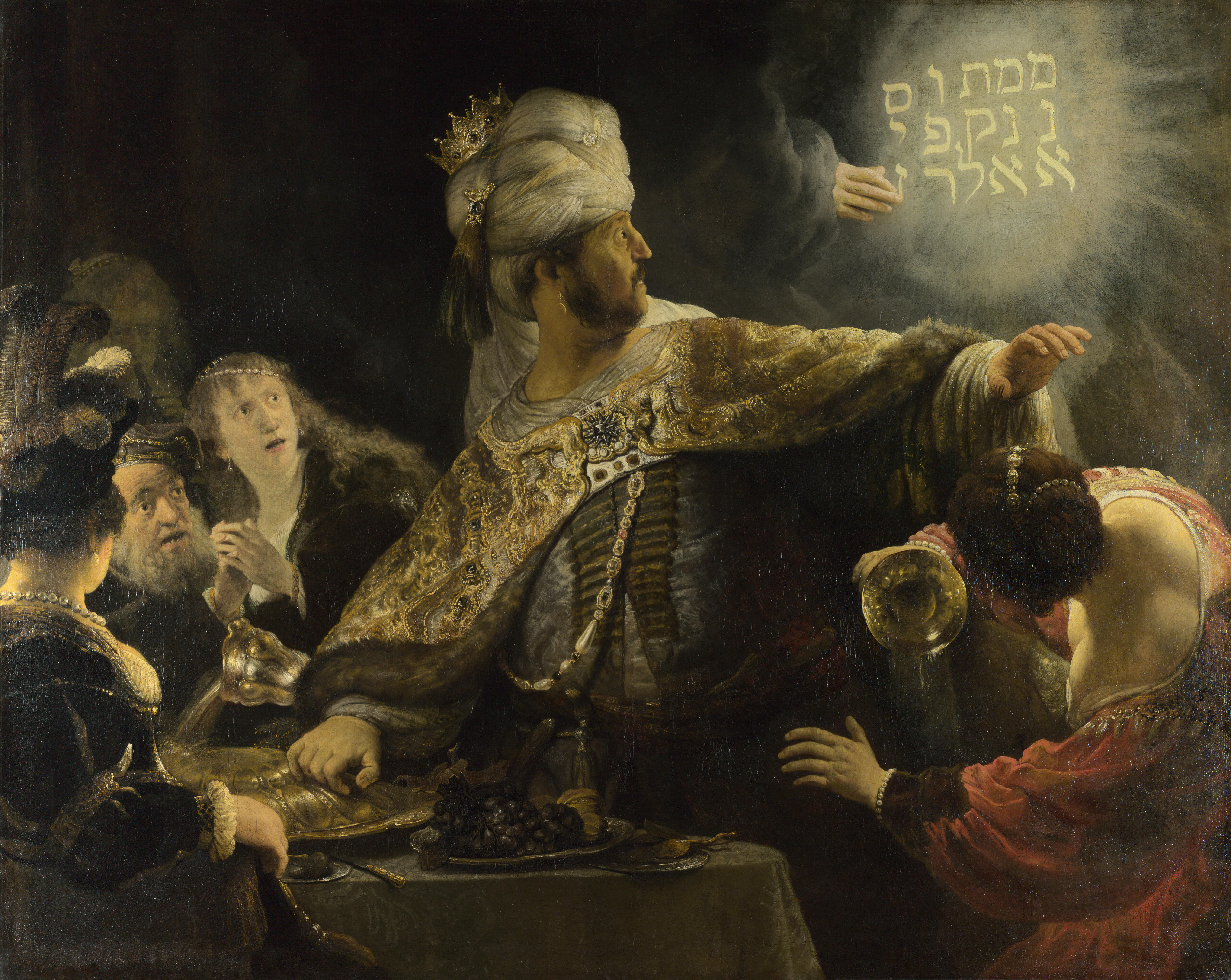 According to Daniel 5:1-31, King Belshazzar of Babylon takes sacred golden and silver vessels from the Jewish Temple in Jerusalem by his predecessor Nebuchadnezzar. Using these holy items, the King and his court praise 'the gods of gold and silver, bronze, iron, wood, and stone'. Immediately, the disembodied fingers of a human hand appear and write on the wall of the royal palace the words "MENE", "MENE", "TEKEL", "UPHARSIN"